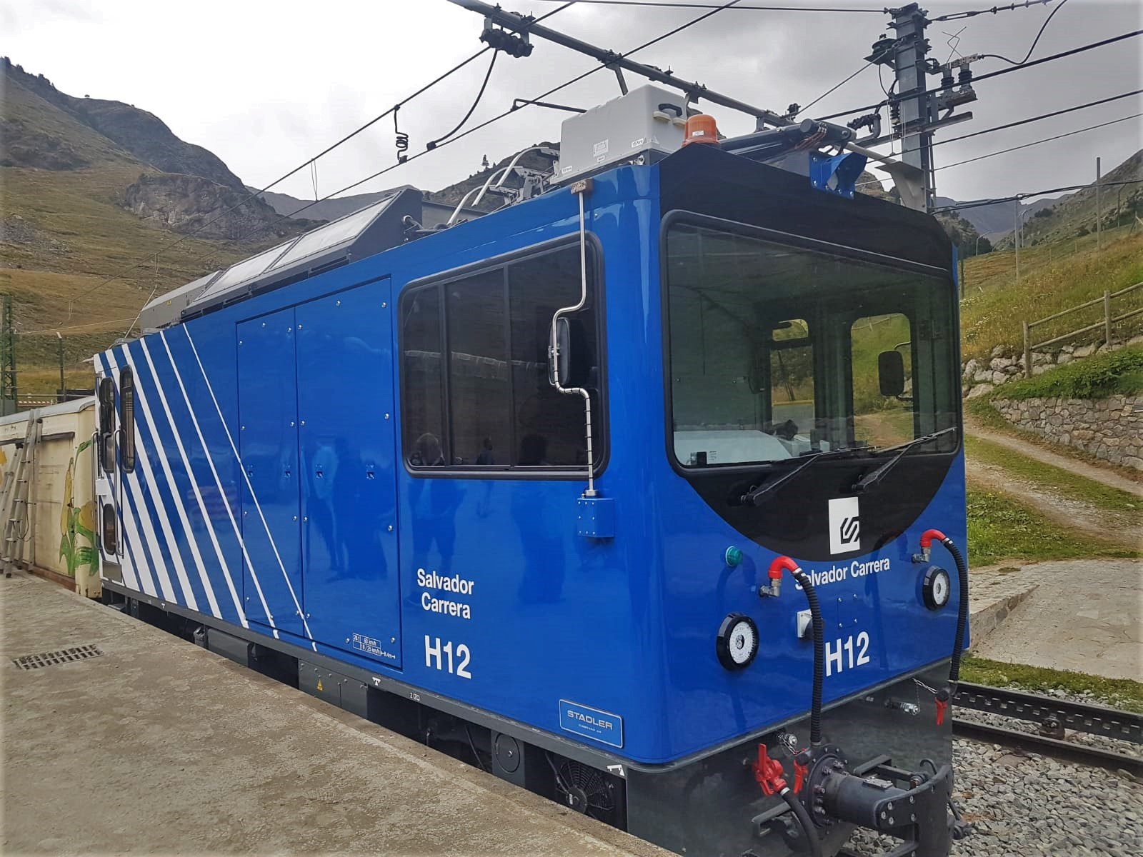 The dual-mode electro-diesel locomotive H12 of the Nuria rack-railway, of Ferrocarrils de la Generalitat de Catalunya, at the Núria station on the day of its baptism.